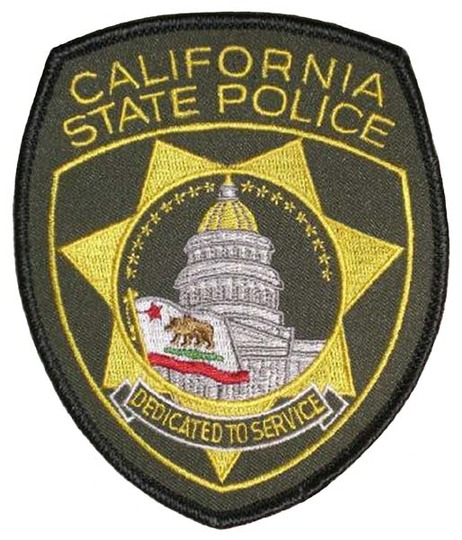 Patch